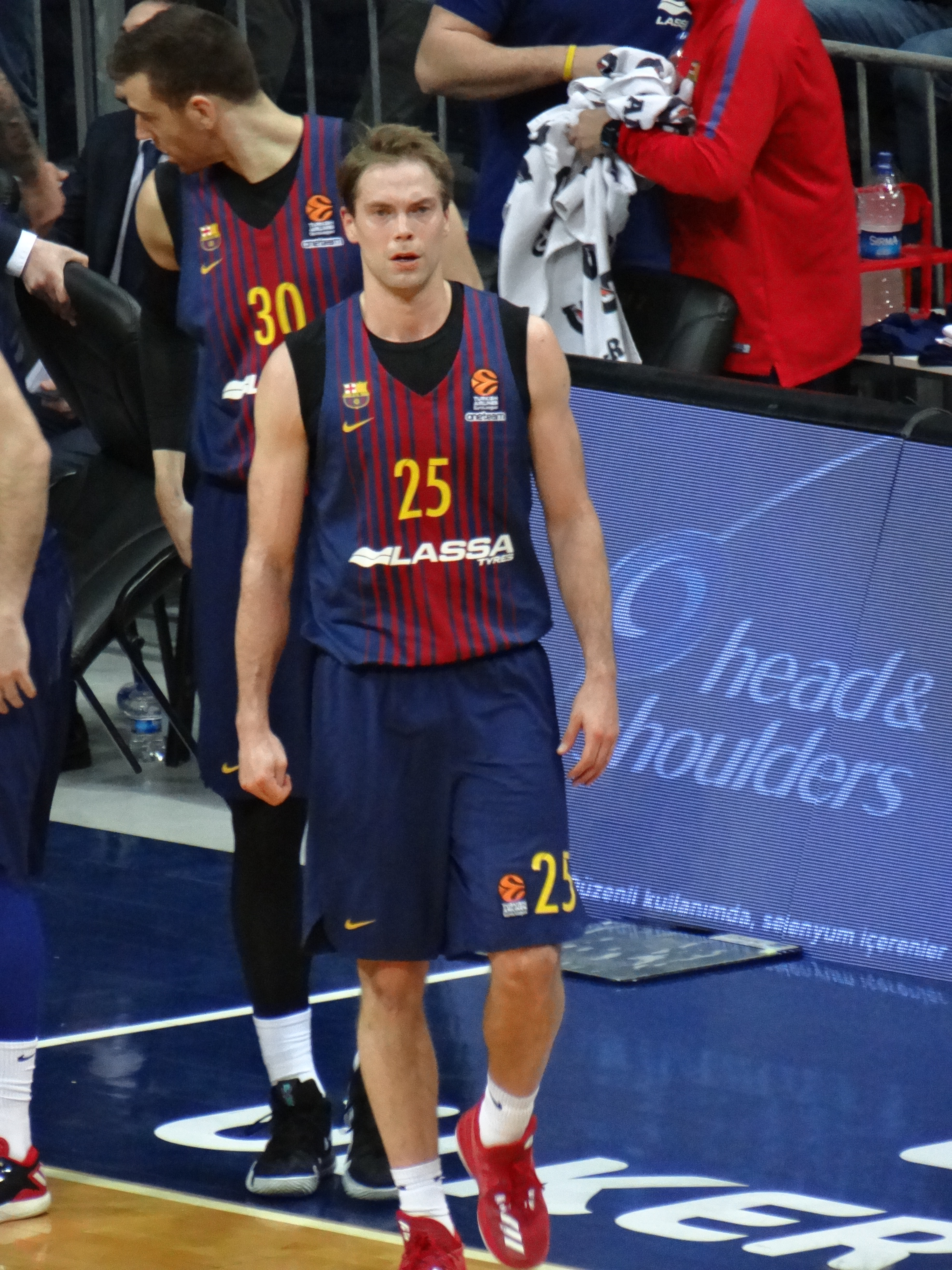 Petteri Koponen 25 FC Barcelona Bàsquet 20180126